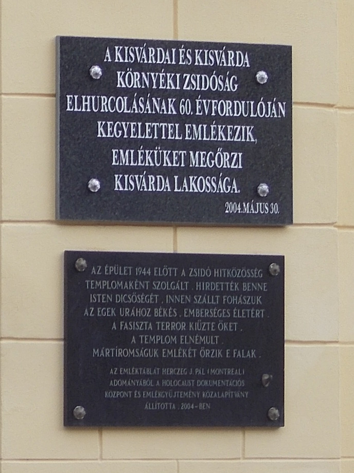 Former Orthodox synagogue (listed, Romantic style, 1902) now museum. plaques (2004). - Csillag Street, Kisvárda, Szabolcs-Szatmár-Bereg County, Hungary.